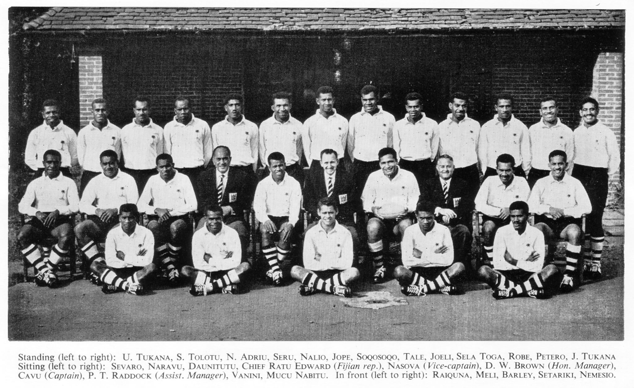 1964 - Home series v NZ Maori plus tour to Wales, France and Canada.